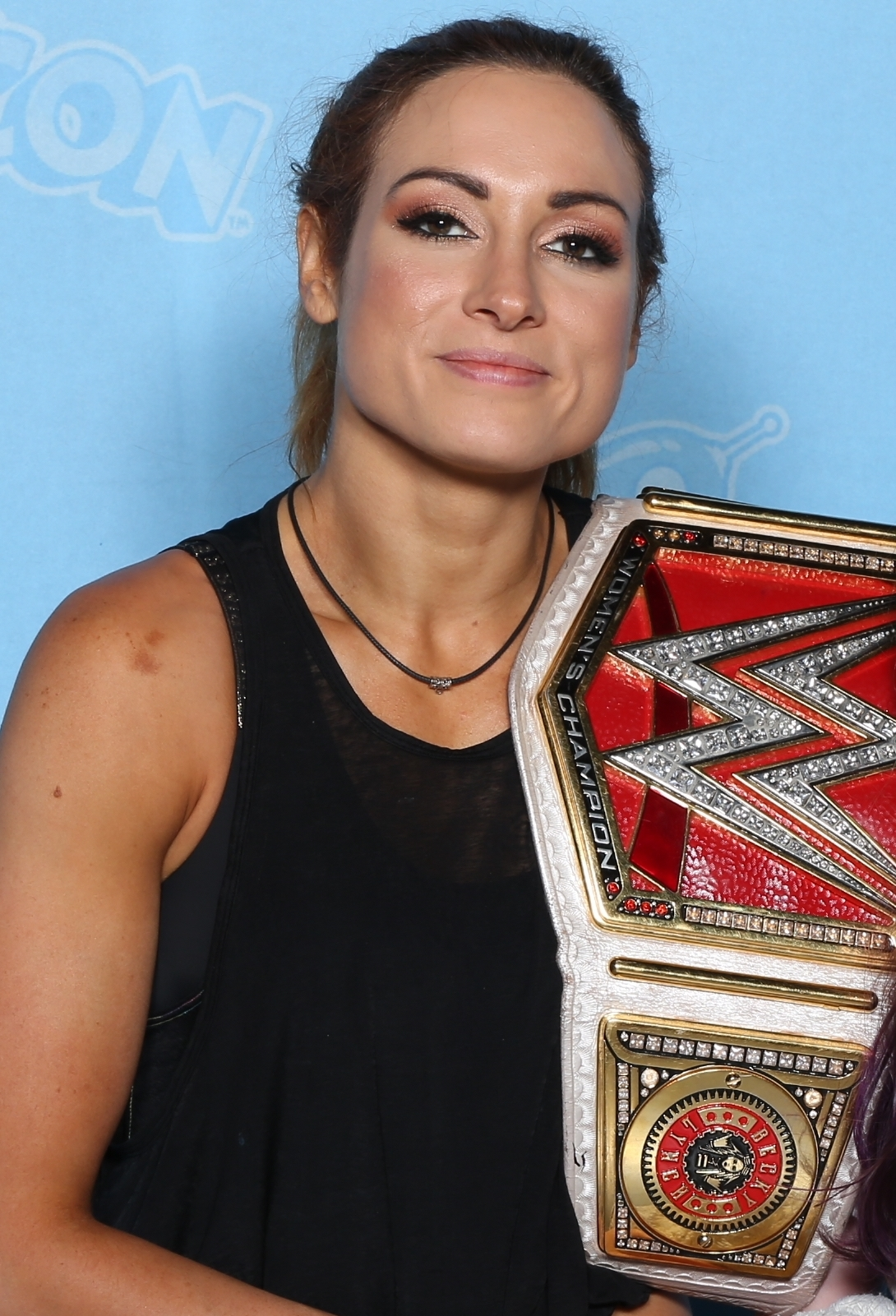 Professional wrestler, Becky Lynch on July 25, 2019 at GalaxyCon Raleigh